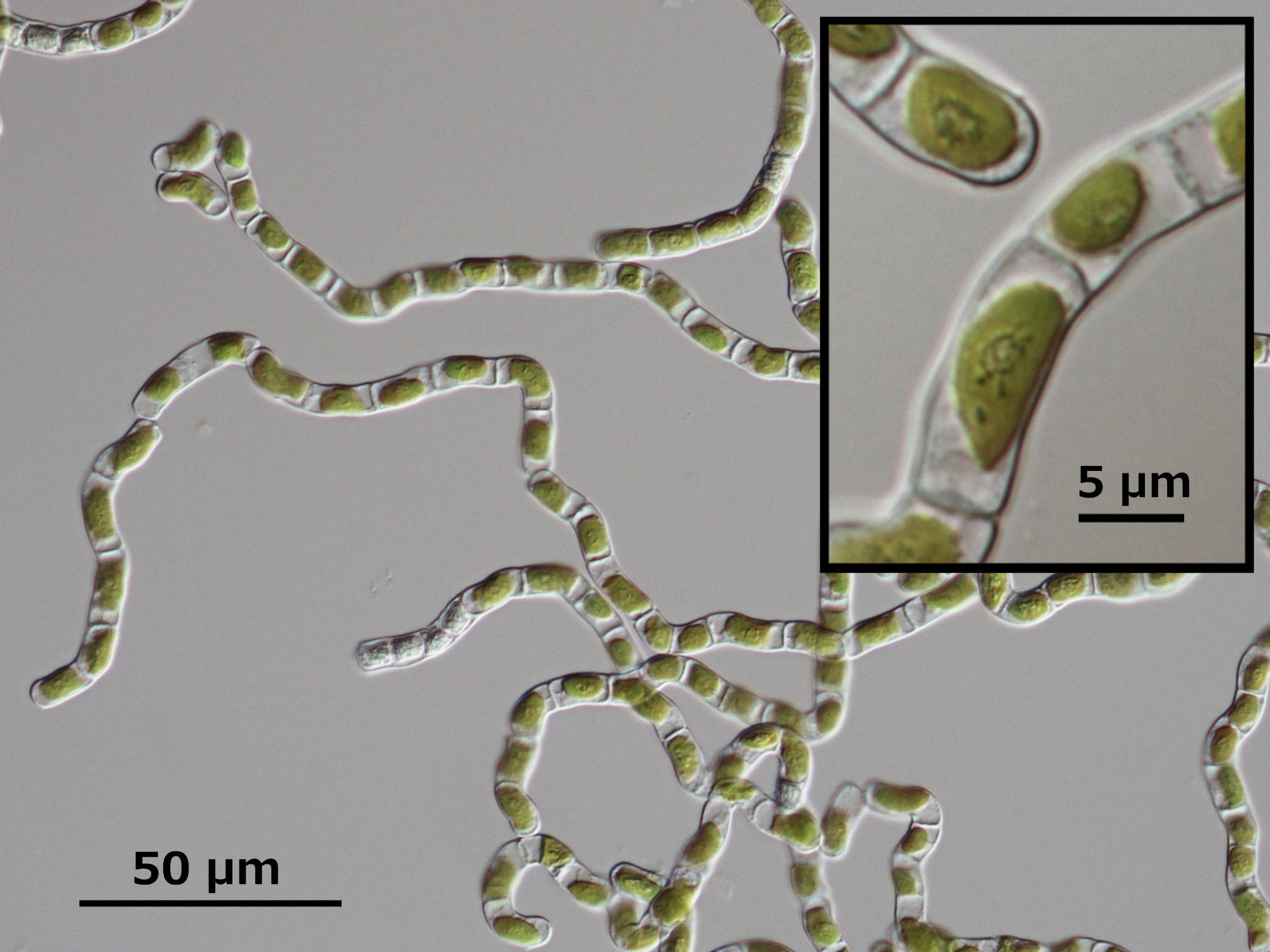 Microscopic image of Klebsormidium nitens NIES-2285.